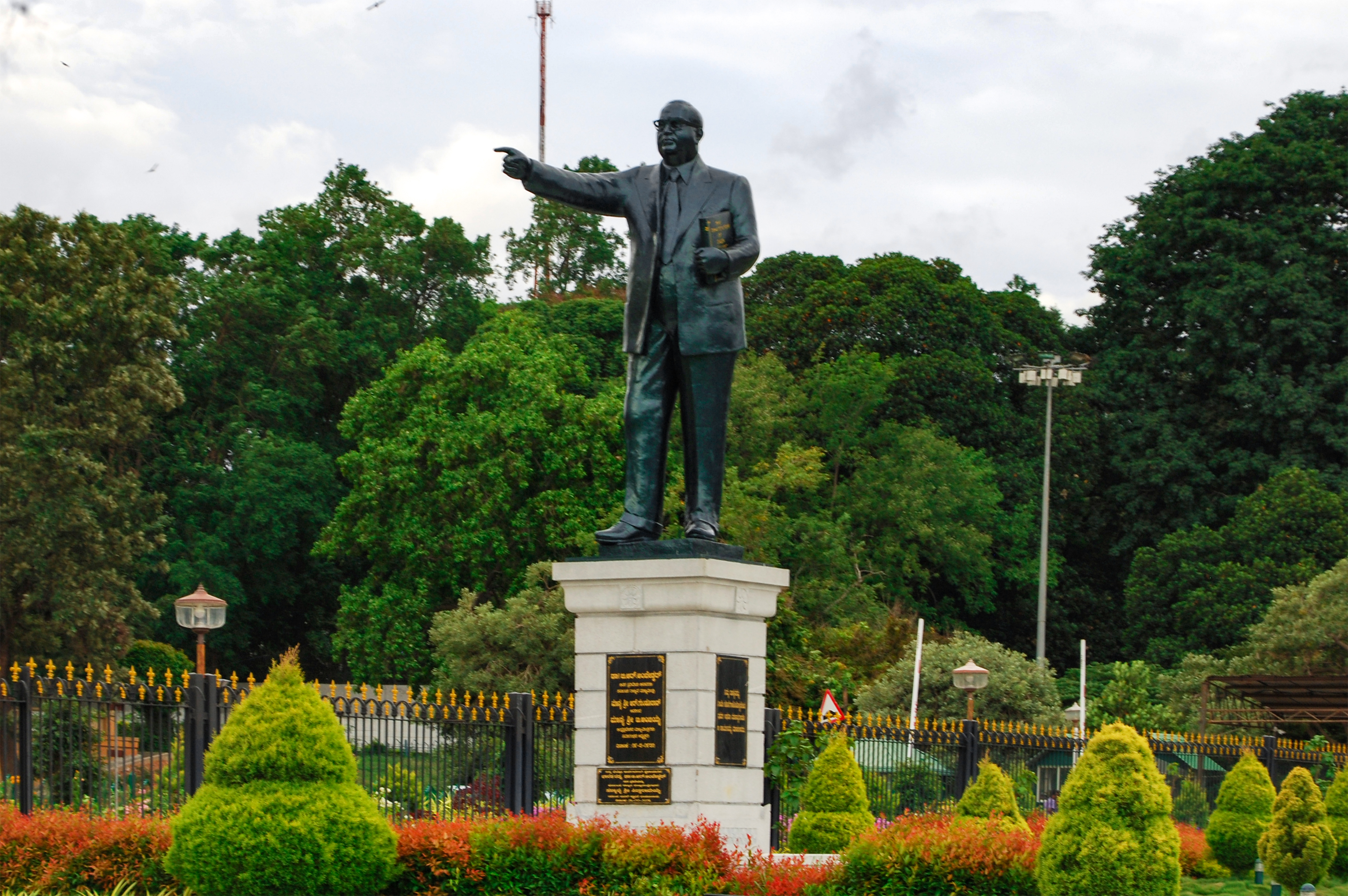 Statue of B. R. Ambedkar (south exposure), Rose garden, Vidhana Soudha, Bengalore, Karnataka, India.